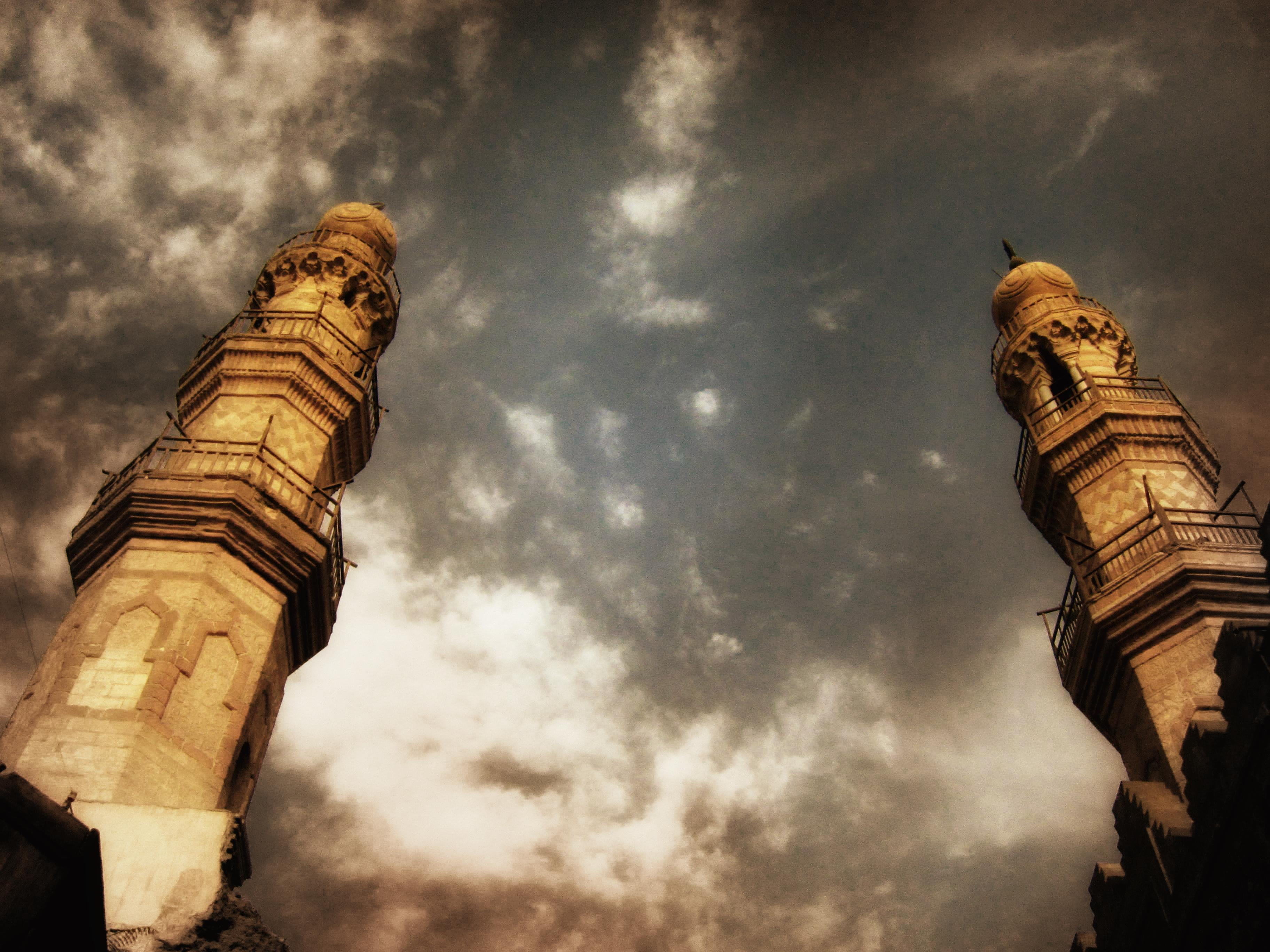 The Mosque and the Khanqah of Emir Shaykhu appear opposite to each other in El-Saliba St . off Salah El-Deen Square . Next to this complex one can notice the remains of the House and Sabil of Emir Abdullah and the ruins of the Hod of Shaykhu . This complex was erected by Emir Shaykhu who was one of the famous Emirs during the reign of the Sultan Nasser Ibn Hasan . In 1351 , he played a great role in supporting Sultan Hasan in restoring his power . Therefore , the Sultan made him the Commander in Chief and gave him for the first time the title of Emir Kabir (grand marshal) . His decree regarding the rules of etiquette inside the royal court of sultan Hasan , no one is permitted to sit in front of Sultan Hasan except for the Sharif of Mecca , is the reason for his resonating fame . Those two buildings are similarly designed with long and tall façades and two identical Minarets and portals . Emir Shaykhu established the Mosque to be a place for Sufis where they can study Quran and prophetic instructions . Five years later , he built the larger khanqah , which included his Mausoleum . He had had to purchased property from the merchants and proprietors in the area to set up this complex which is regarded overall view of the identical facades of Emir Shaykhu Mosque and Khanqah as one of the largest worship places in Egypt . Source.